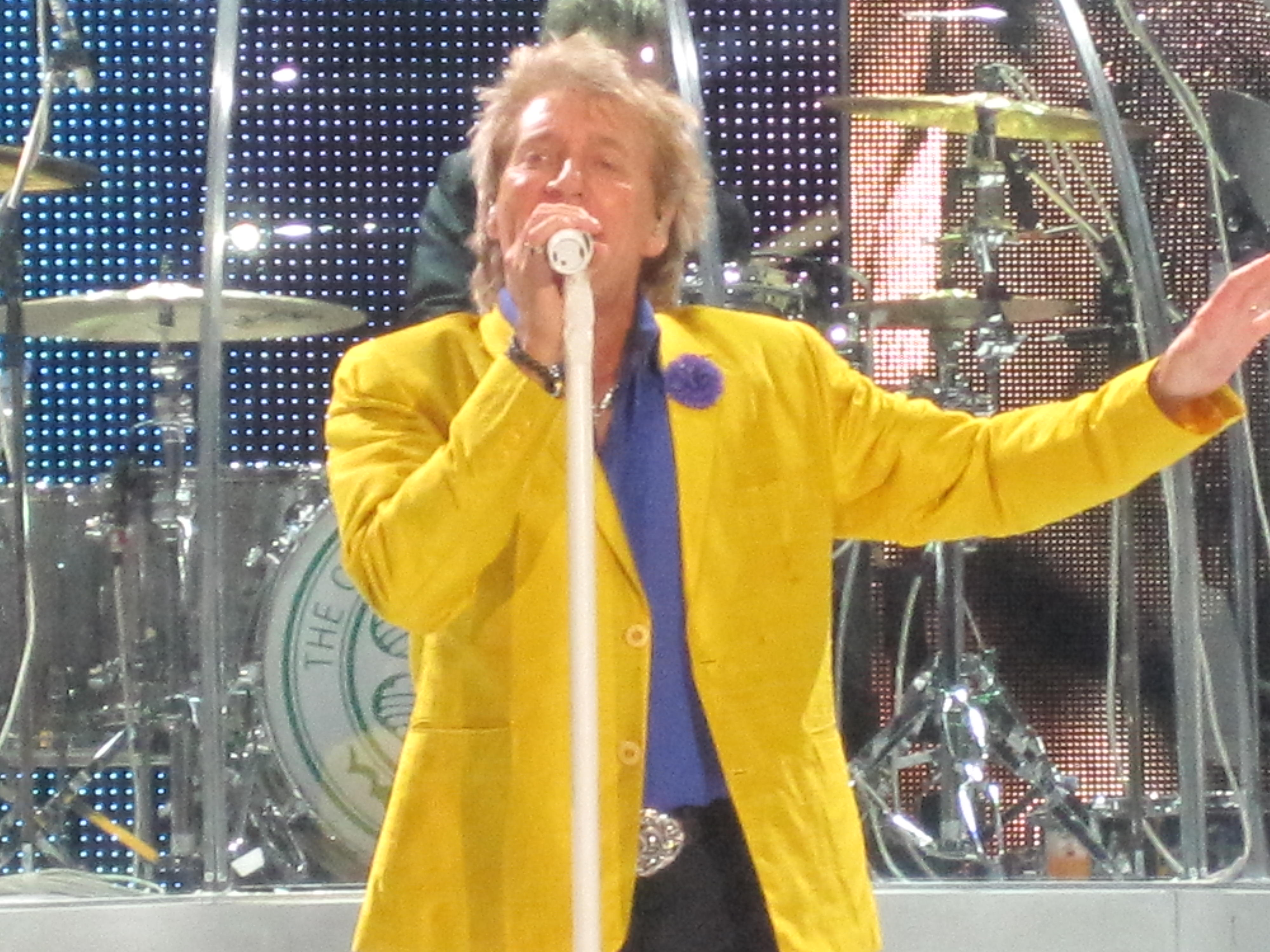 Live @O2 World Hamburg